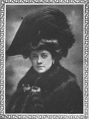 Maie Saqui, from a 1907 publication. A white woman dressed in a large dark hat and furs.